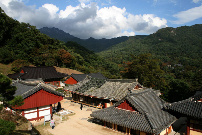 Haeinsa temple, South Korea